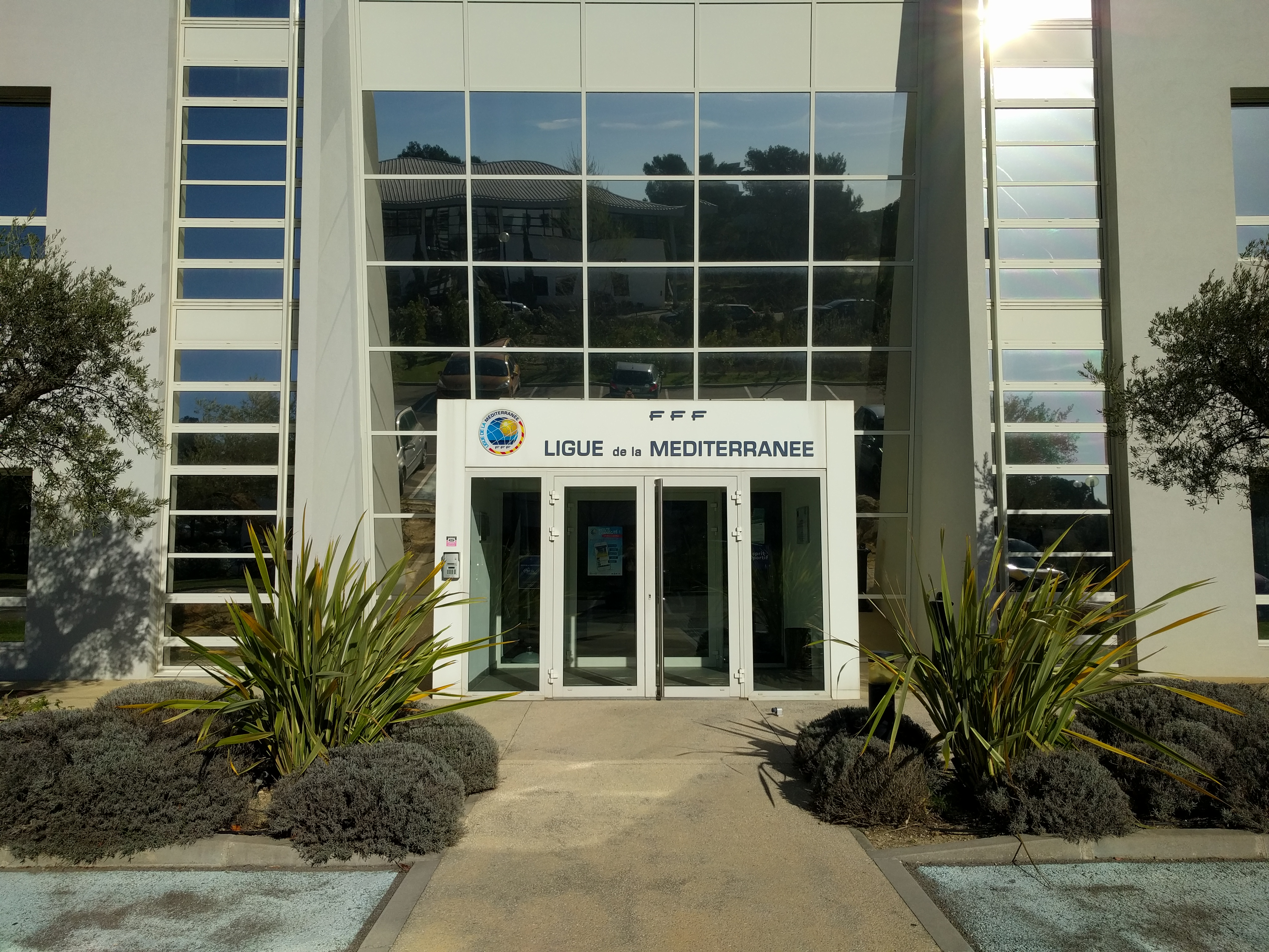 Headquarters of the league of the Mediterranean of football.